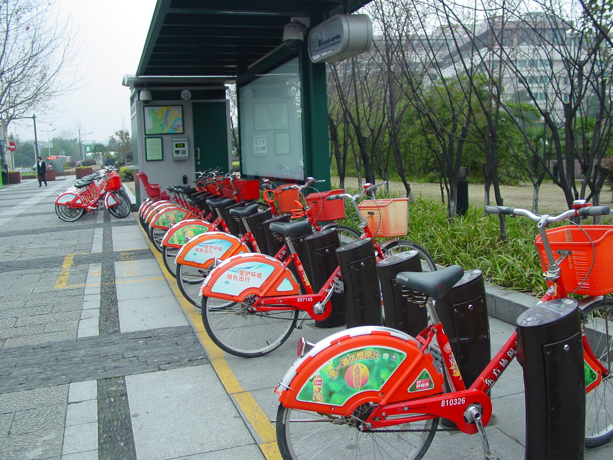 Public service / Bicycle service Hangzhou CHINA